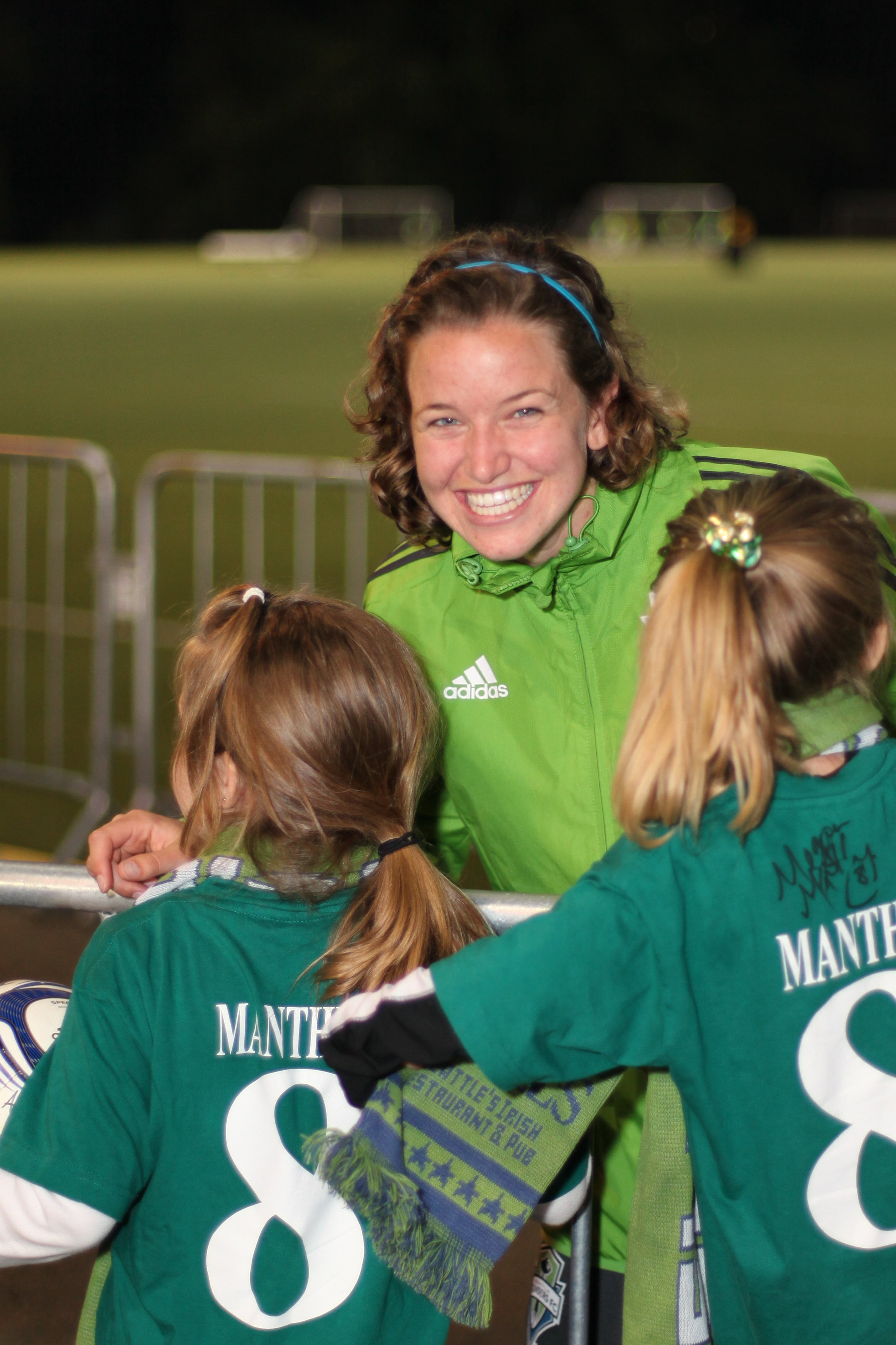 Megan Manthey - Professional Soccer Player - signing autographs of her #1 fans - her cousins - who are wearing old Fortuna Hjørring #8 Manthey jerseys.